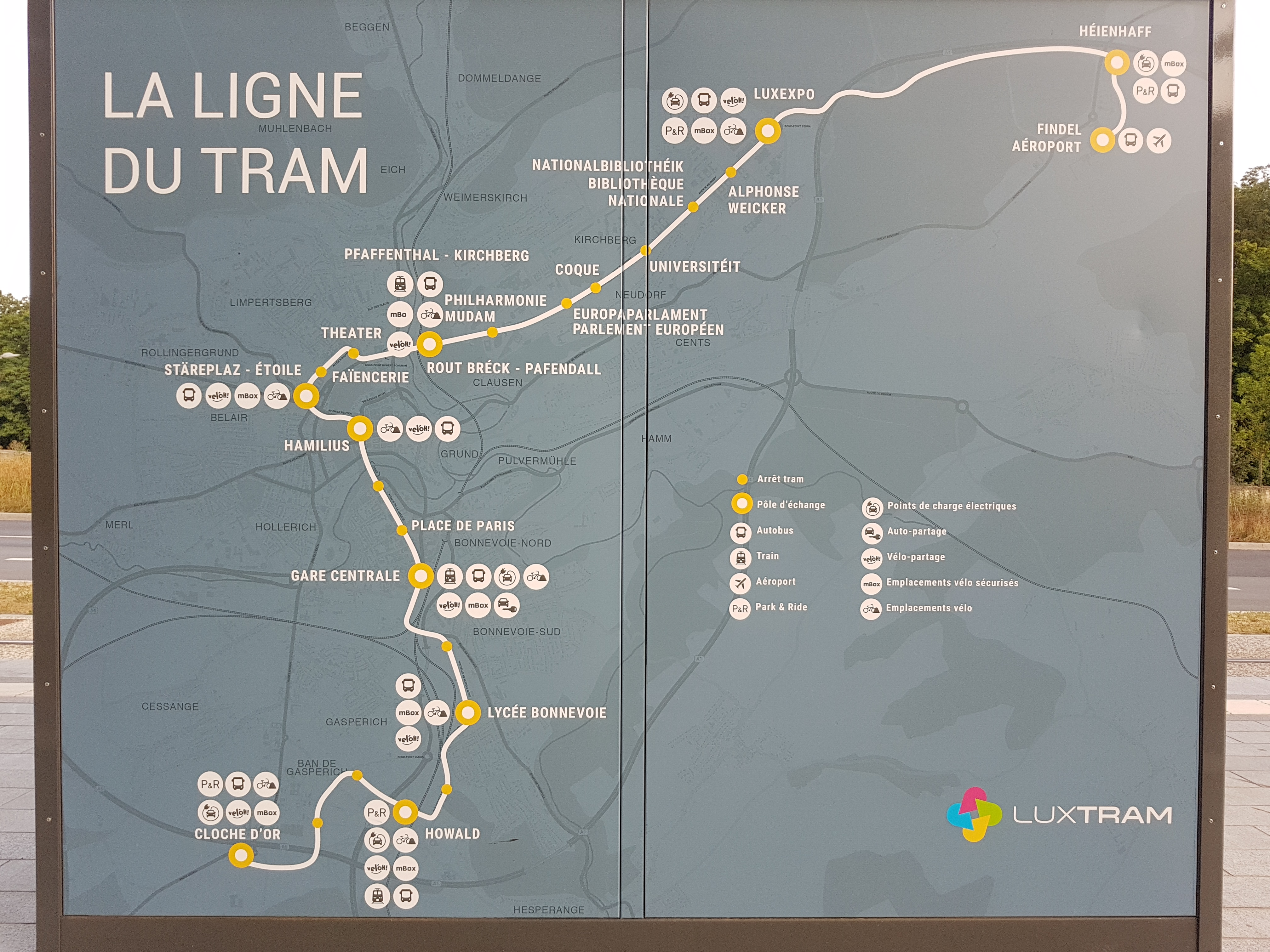 The Stater Tram (Meaning: urban tram) is the tram of the Luxembourg capital, Luxembourg, which opened on 10 December 2017. Station at Kirchberg at the top station of the funicular Pfaffenthal-Kirchberg.